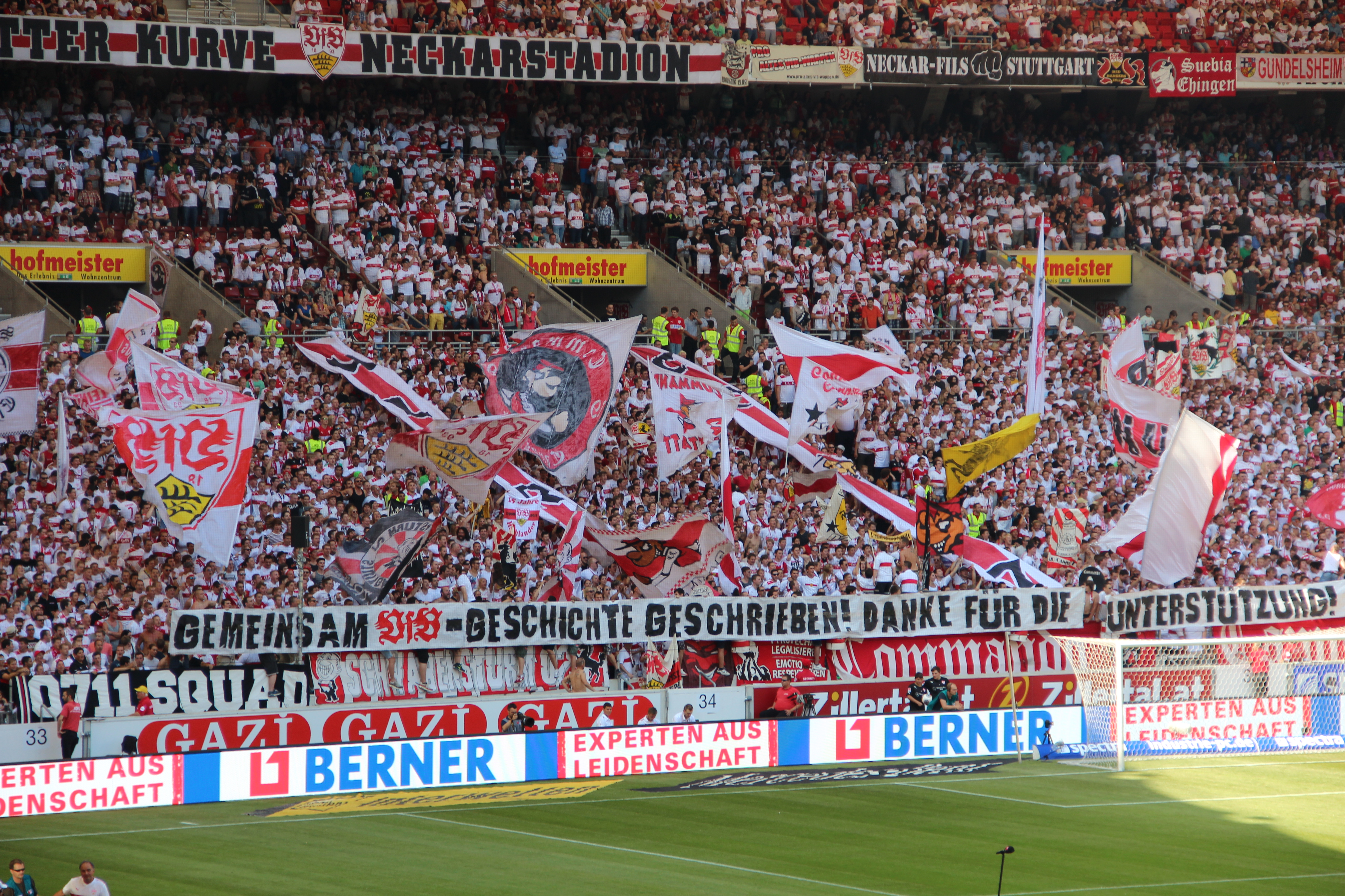 Cannstatter Kurve Stadion Stuttgart, Fan Area of VfB